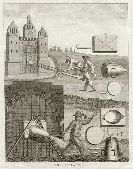 From: "Military Antiquities Respecting a History of The English Army from Conquest to the Present Time" by Francis Grose Esquire. Copper plate engraving on medium weight, cotton rich paper. Printed 1812.